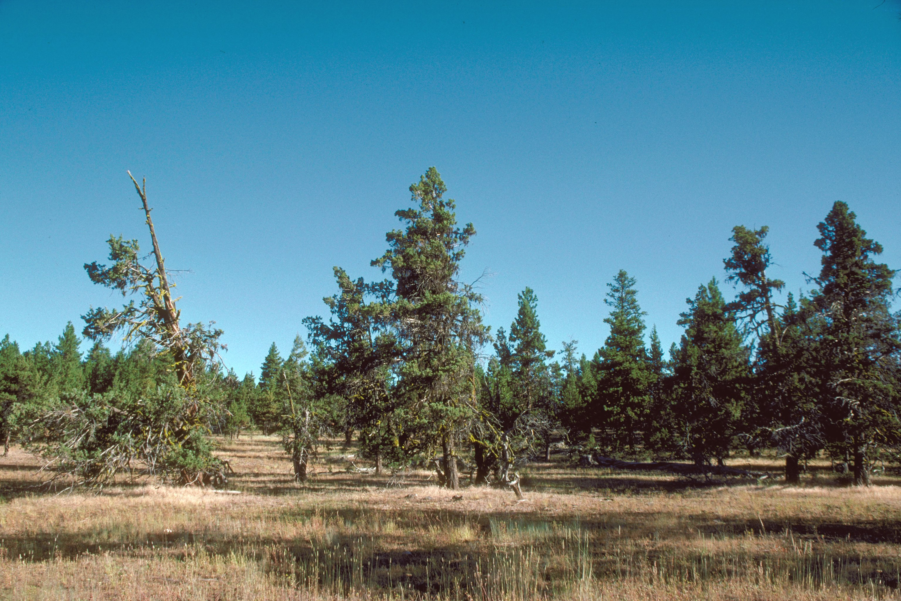 Juniperus occidentalis, Long Creek Ranger District, Malheur National Forest, Oregon, USA